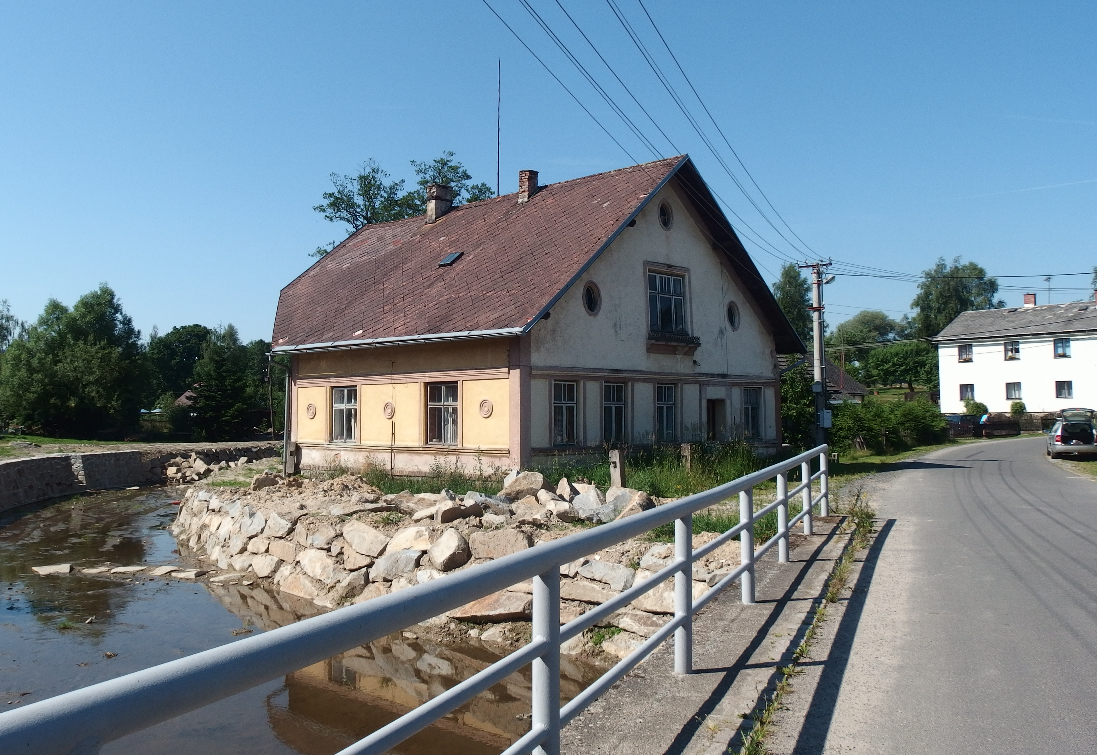 Vortová, Chrudim District, Czech Republic.